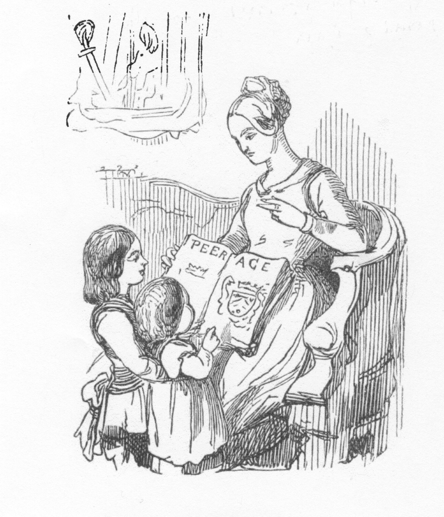 Engraving on wood by W. M. Thackeray himself, for the first edition of The Book of Snobs. Chapter III : "Our children are brought up to respect the Peerage as the Englishman's second Bible."